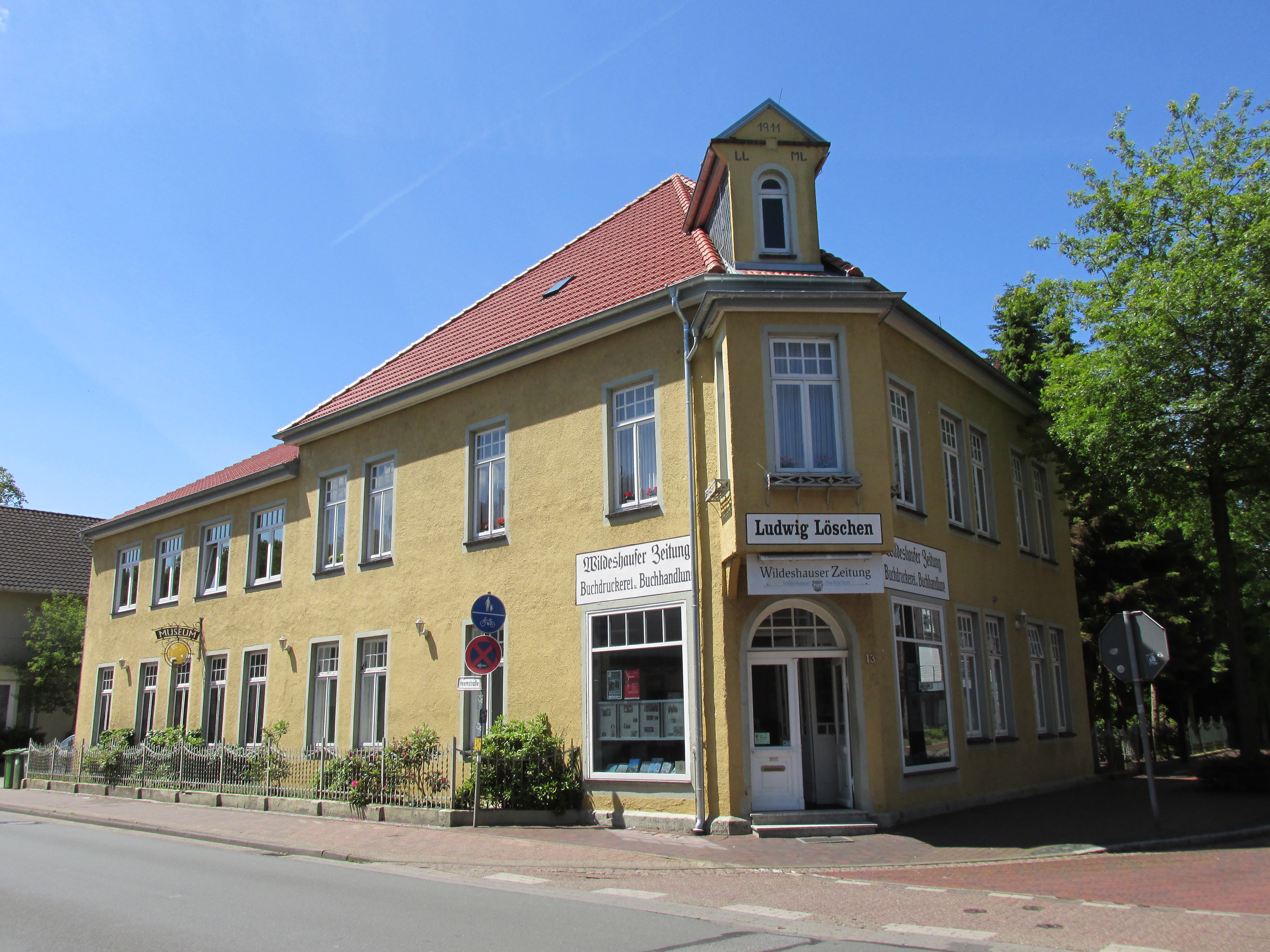 Printing museum, Wildeshausen, Germany check usage Address Bahnhofstraße 13 27793 Wildeshausen Germany Date30 May 2014SourceOwn work. (→ weitere 1,530 Bilder von mir in der Galerie)AuthorStefan FlöperPermission (Reusing this file) cc-by-sa-3.0, gfdl 1.2+